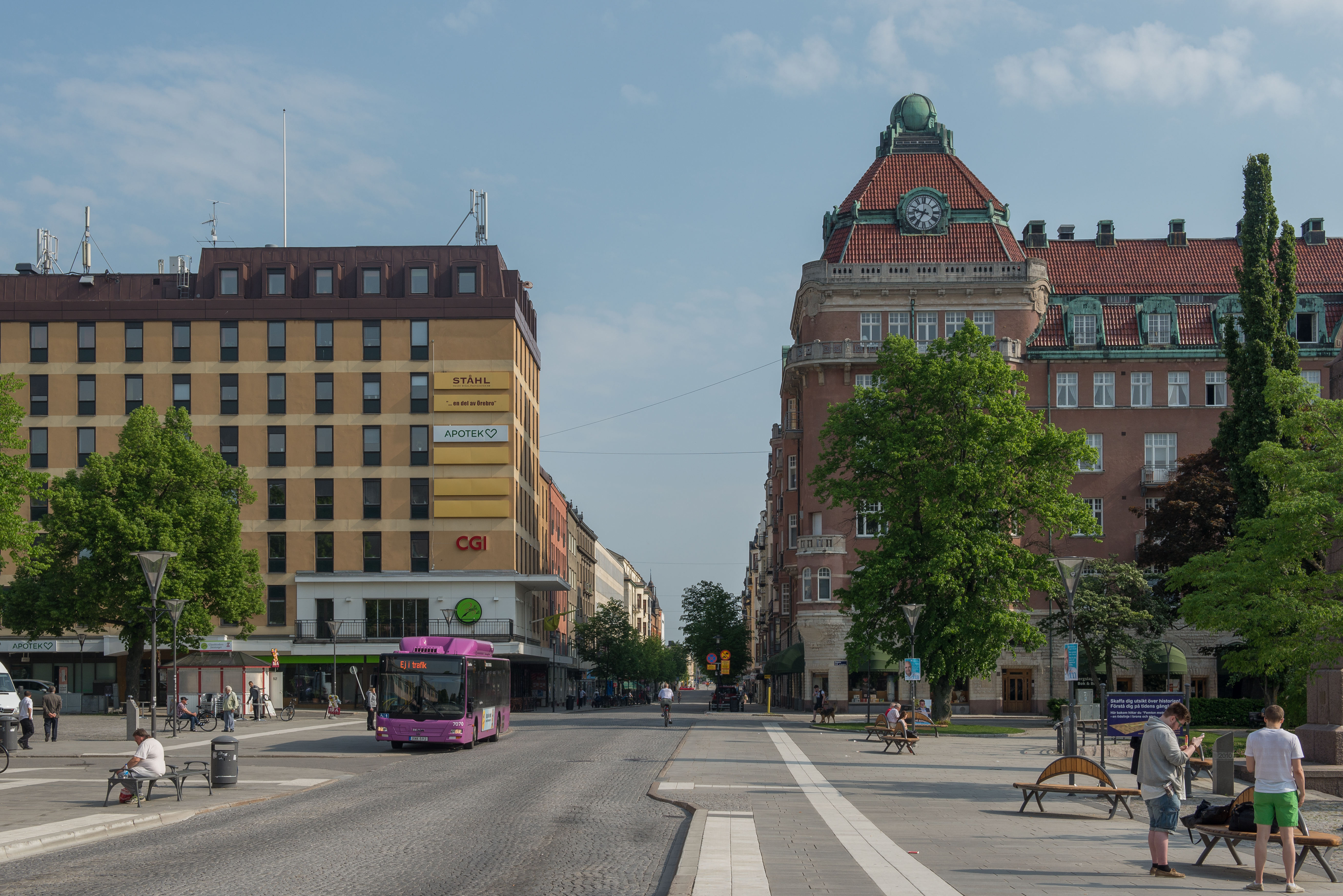 Storgatan, Örebro.